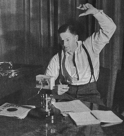 Bertil Uggla (1890-1945) during a radio broadcast